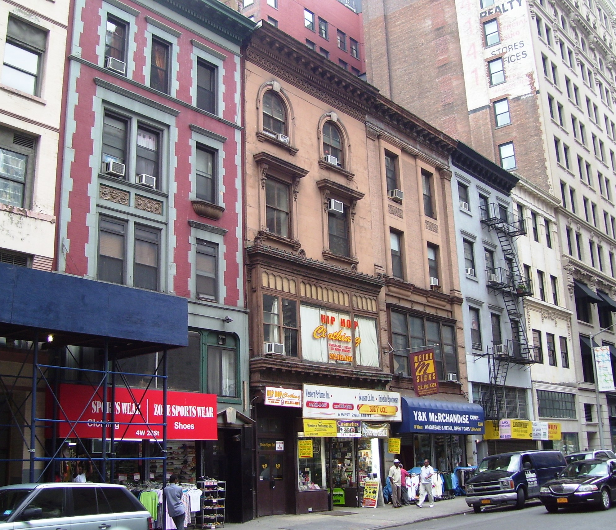 4 (left) - 12 (right) West 28th Street between Broadway and Fifth Avenue in the NoMad neighborhood of Manhattan, New York City are located within the Madison Square North Historic District. 4 (left) - originally brownstone row house (1861-62), converted in 1885 to store and dwelling with a new facade in Queen Anne style by Henry E. Kilburn 6 - built in 1855 as a brownstone dwelling in the Italianate style, converted to commercial use in 1904 8 - built in 1855 as a brownstone dwelling, converted to commercial use in the early 1880s, a new facade in the Romanesque Revival style was installed in 1888, designed by Charles Romeyne & Co. 10 - built in 1856 as a private residence in the Italianate style, converted to commercial use by 1886 12 (right) - built in the mid-19th century as a row house, given a new commercial facade in 1912, designed by S. Edson Gage in the neo-Classical style (Source: "NYCLPC Madison Square North Historic District Designation Report")